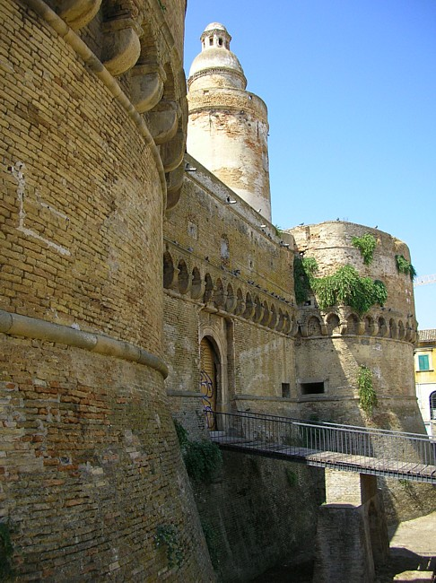 Vasto, Castello Caldora Picture taken by user:Idéfix, july 2005